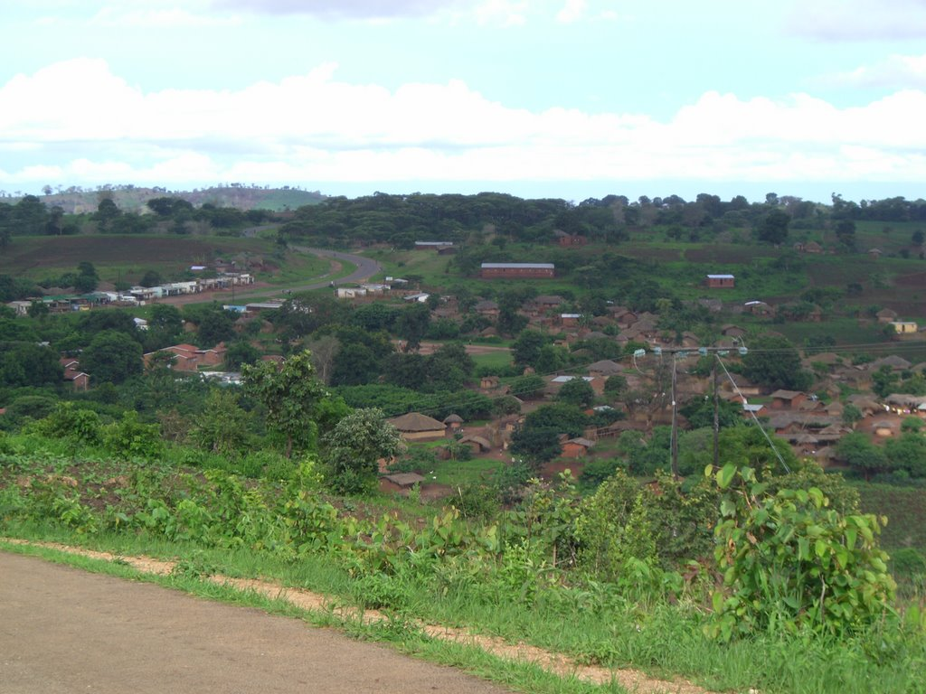 Chezi, Dowa District, Malawi